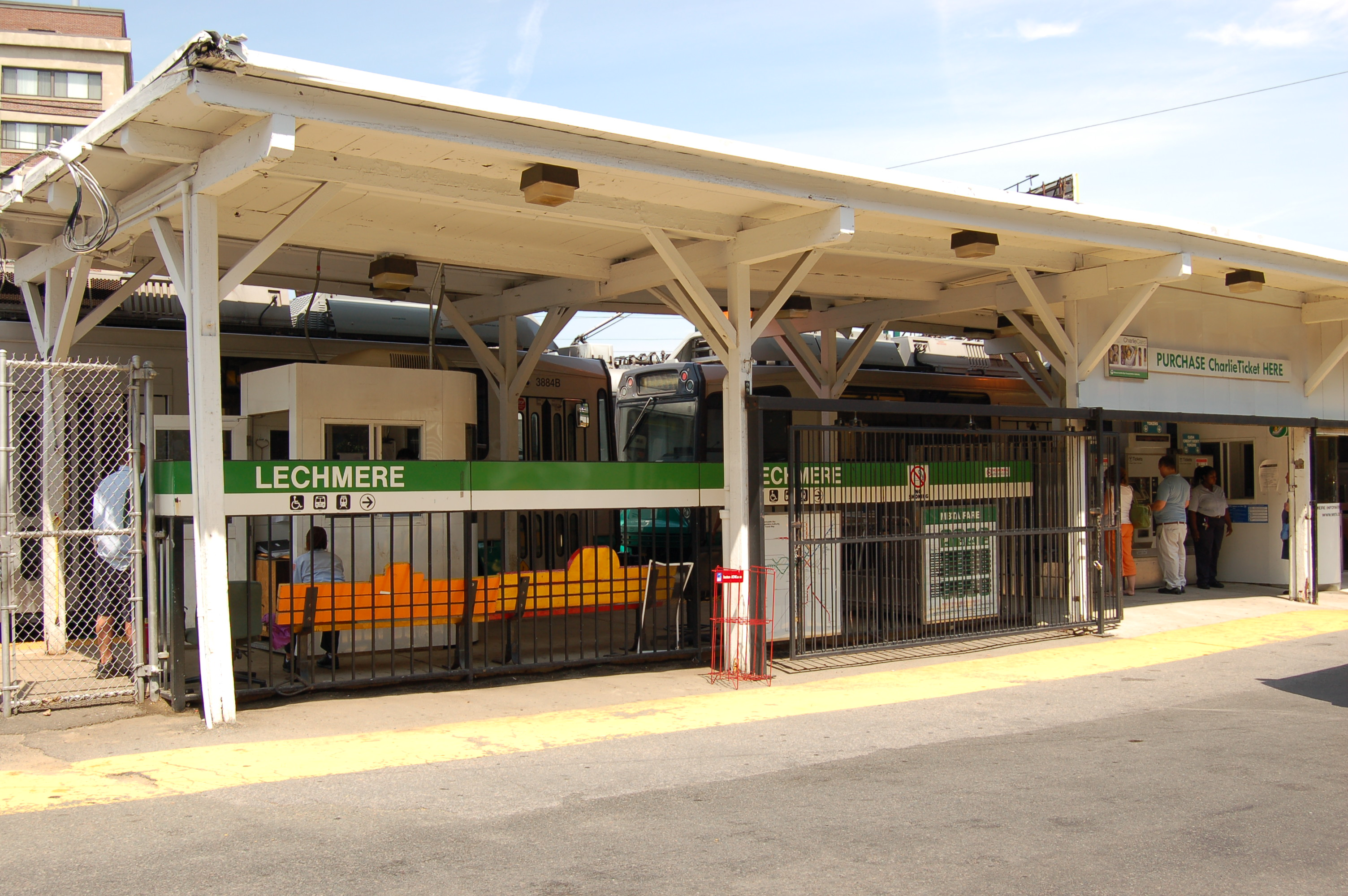 Inbound platform and fare gates at Lechmere Station in East Cambridge, Massachusetts